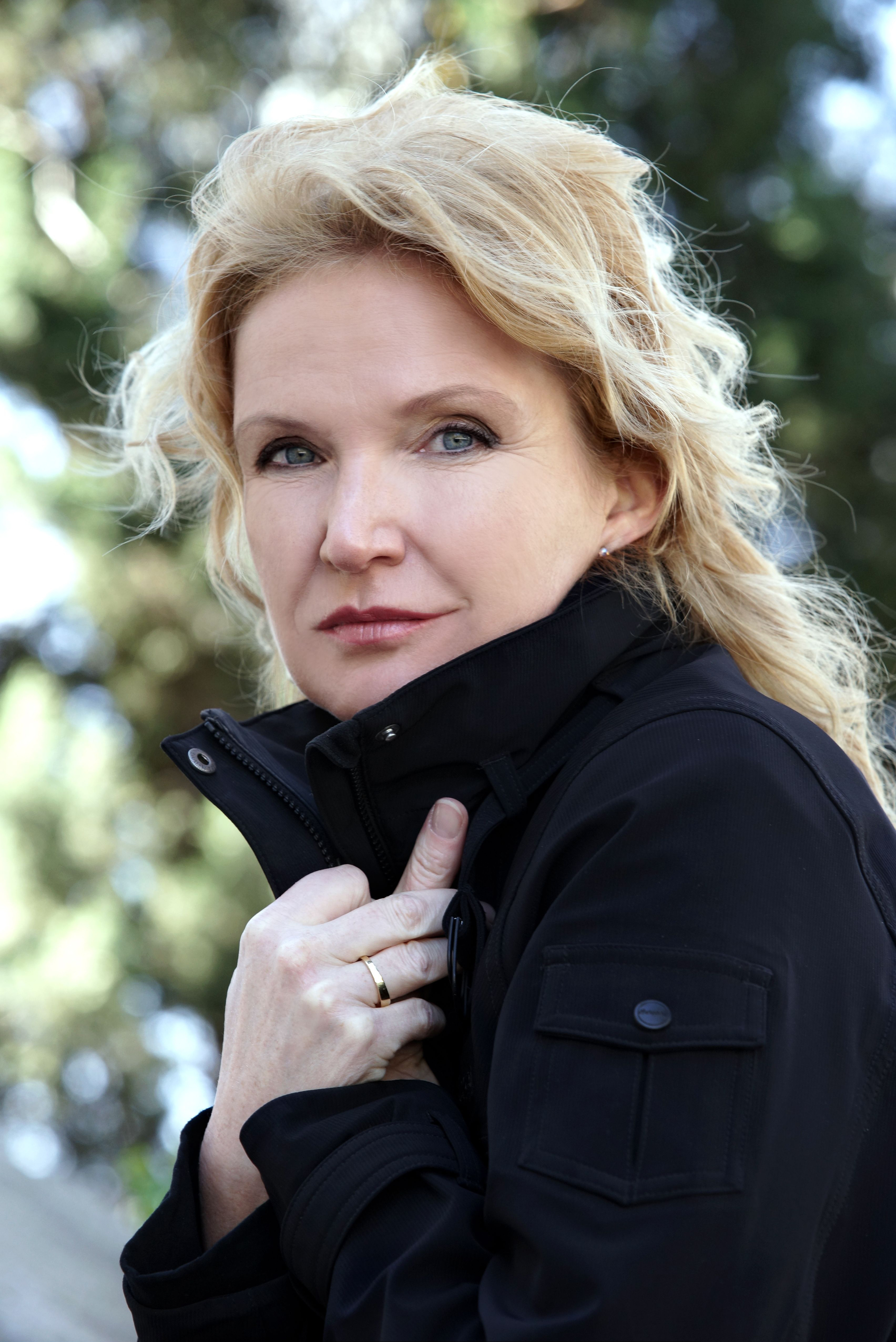 Portait of the German soprano Anne Schwanewilms